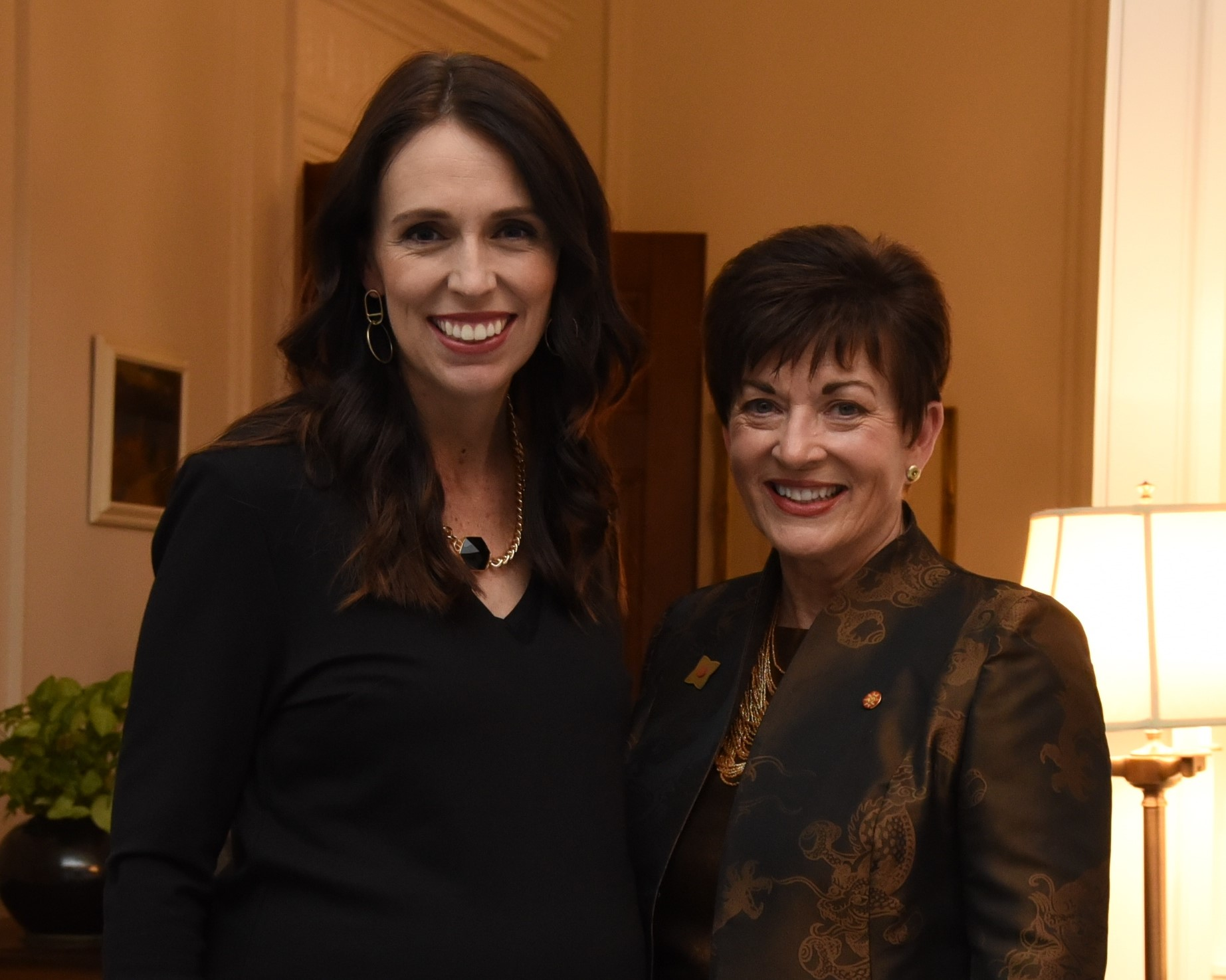 New Zealand Governor General Patsy Reddy and Prime Minister Jacinda Ardern at the 2018 Arts Foundation Icon Awards.